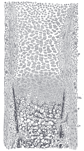 Section of fetal bone of cat. ir. Irruption of the subperiosteal tissue. p. Fibrous layer of the periosteum. o. Layer of osteoblasts. im. Subperiosteal bony deposit. (From Quainâ€™s â€œAnatomy,â€ E. A. SchÃ¤fer.)